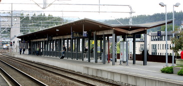 Platform Sandvika Station in Bærum, Norway, on the Drammen Line.